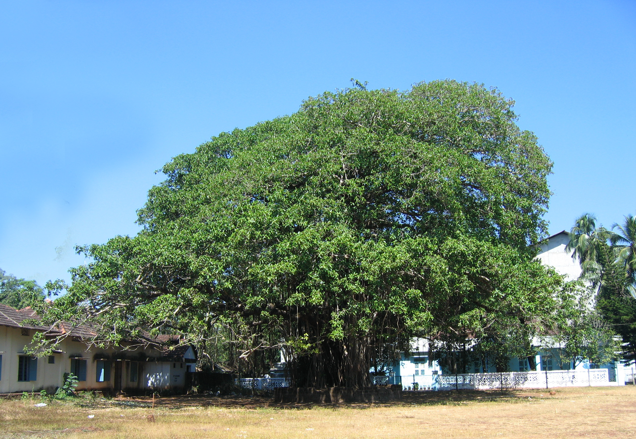 Ficus Benghalensis at Kannur Science Park